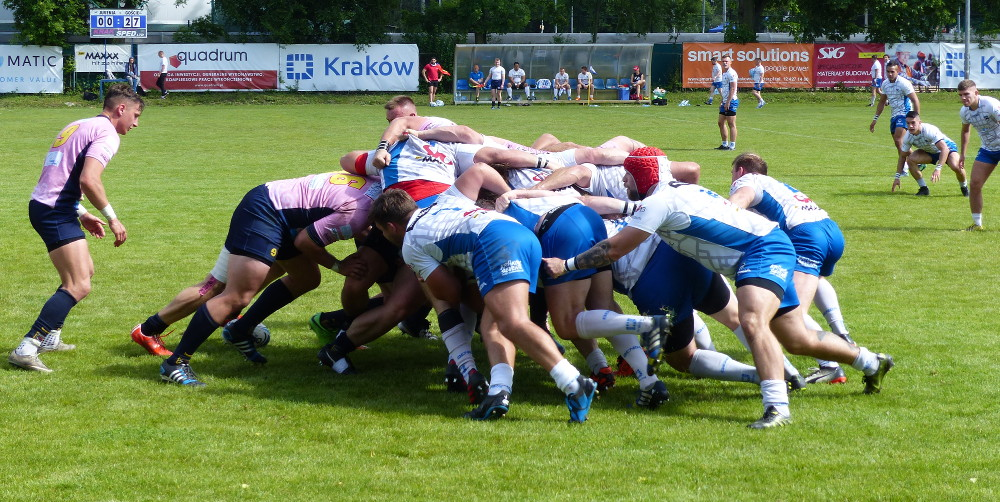 Polish league of rugby union match: Juvenia Kraków - Ogniwo Sopot, 1.06.2019